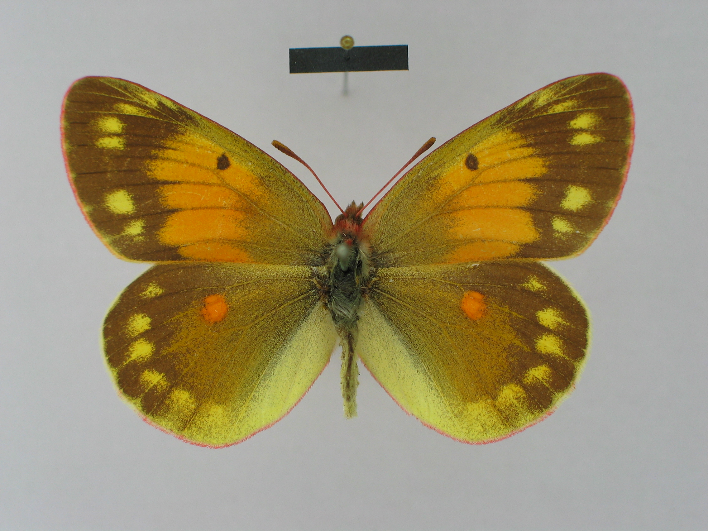 Specimen of the species Colias viluiensis chilkana from the collection of the Zoologische Staatssamlung München; ♀ dorsal side; scalebar=1 cm